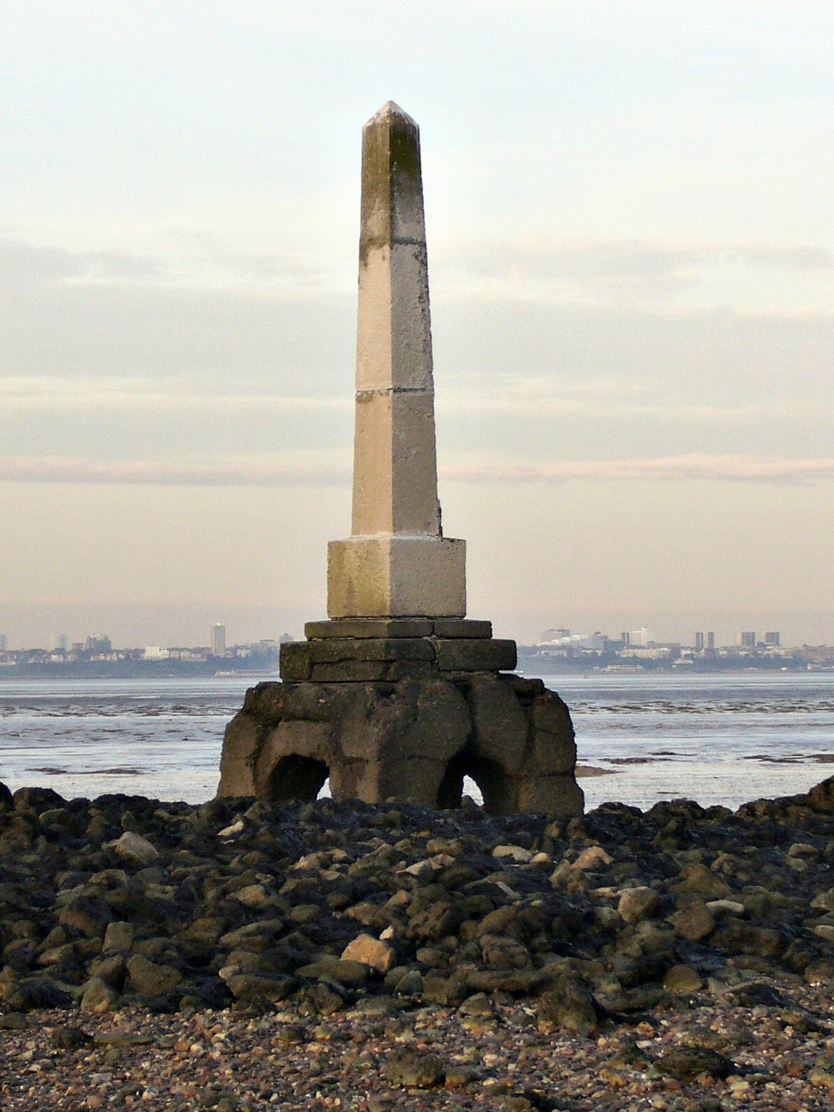 The London Stone at grid reference TQ 860 786 at the mouth of Yantlet Creek on the Isle of Grain. Southend-on-Sea can be seen in the background on the other side of the Thames. One of a number of London Stones, this one stands beside the Thames at the mouth of Yantlet Creek. It marked the downstream limit of the control of the river by the City of London Corporation. The corresponding marker on the other side of the river is The Crowstone near Southend-on-Sea, which can be seen in the background of this picture. The line between these stones is the "Yantlet Line" which is still used as a boundary for various things: Google search for Yantlet Line. The corresponding marker above London is London Stone, Staines at 31 km as the crow flies upstream from London Bridge. But this stone at Yantlet is 54 km downstream. Direct access to the stone is difficult because Grain Marsh is an MoD firing range. To take this photo, I approached from the British Pilot in Allhallows and paddled through Yantlet Creek. Here are my feet on the way back. More images.